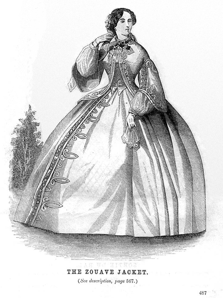 Zouave jacket, from Godey's Lady's Book, December 1859.